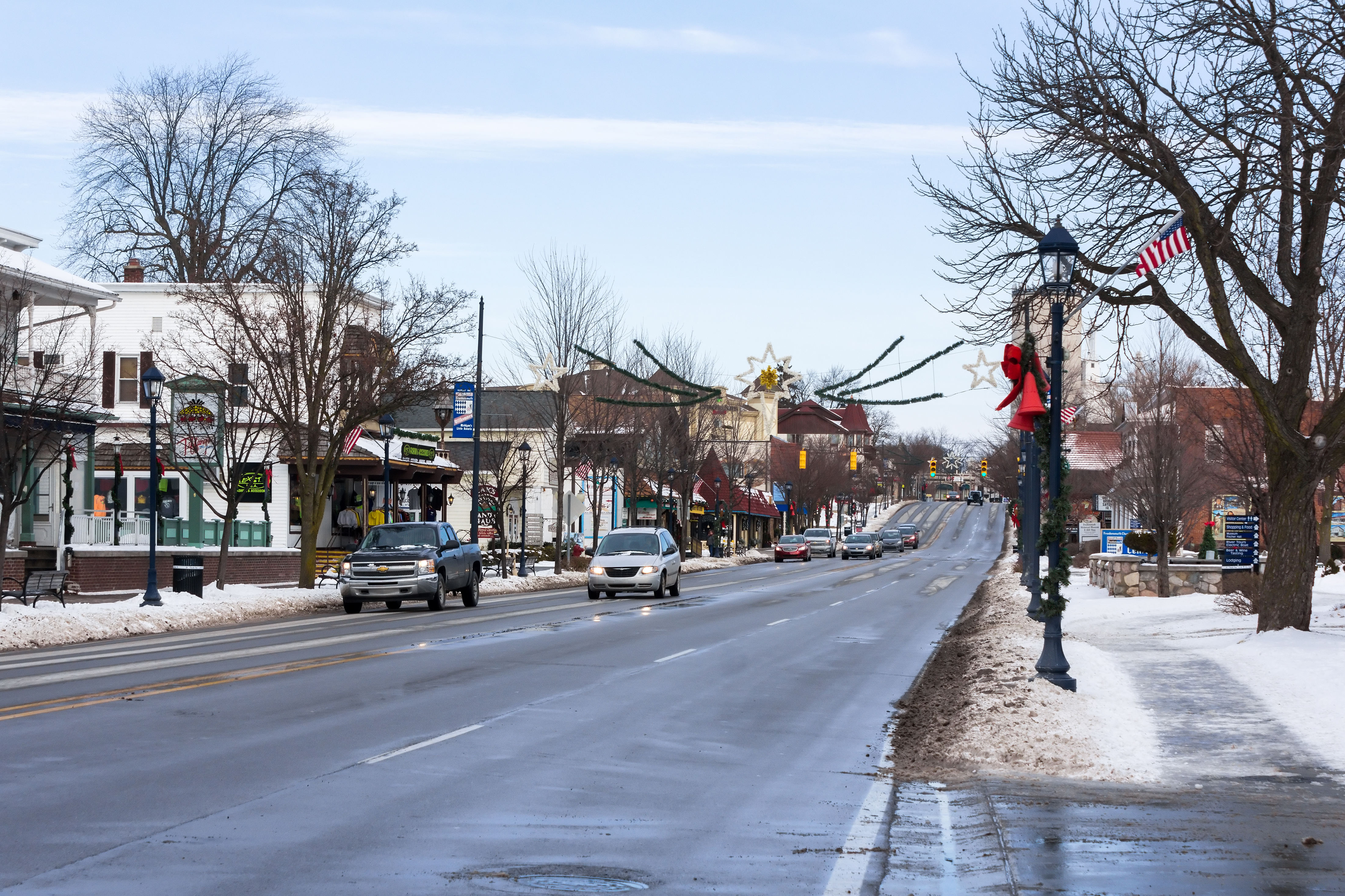 Main Street, Frankenmuth, Michigan, 2014-01-11